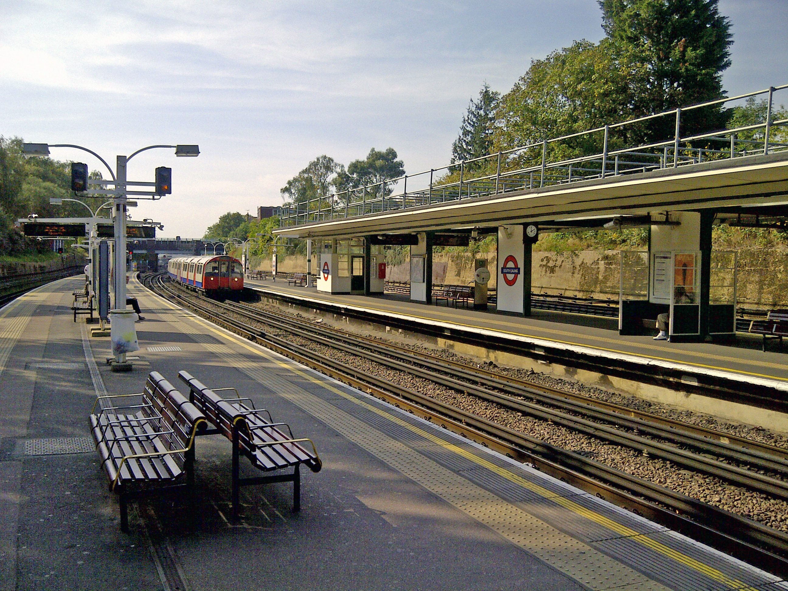 Piccadilly Line train approaching platform of the South Ealing tube station